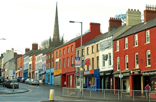 Bridge Street, Lisburn Bridge Street runs from the Queen's Road (out of picture to the right) to Market Square. This (northern) side is still intact but most of the southern side was demolished to accommodate the throughpass. The Cathedral spire 101374 is in the background.